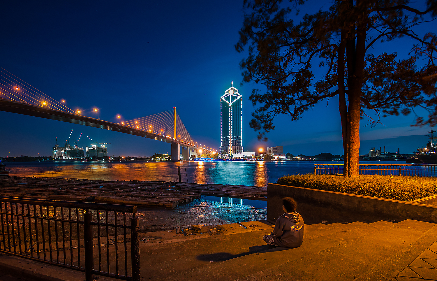 Rama IX Bridge and the Kasikornbank headquarters building at night, taken from the Public Park in Commemoration of H.M. the King's 6th Cycle Birthday